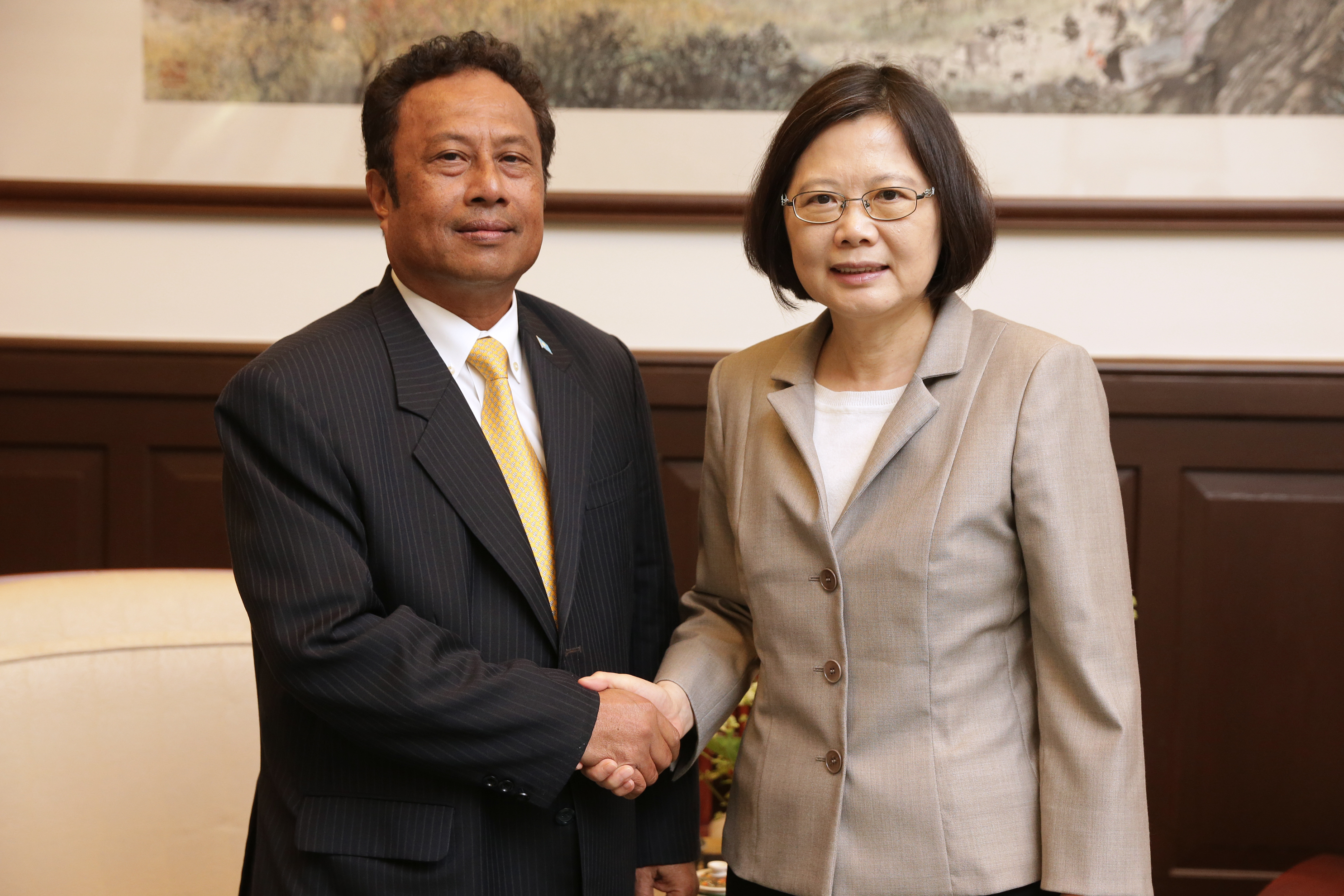 民國百五年五月二十一日 President Tsai Ing-wen takes photos with Republic of Palau President Tommy E. Remengesau.